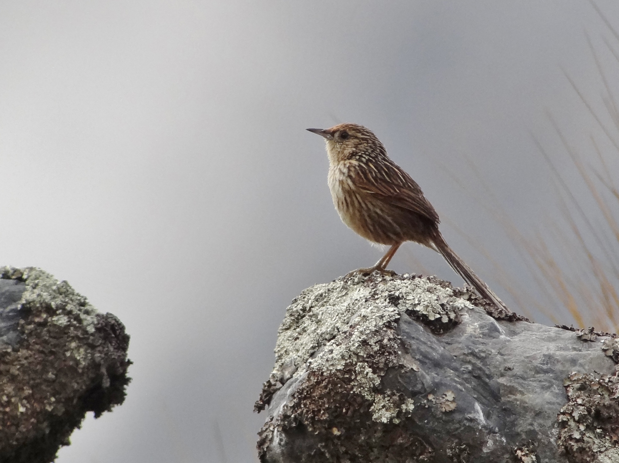 Scribble-tailed Canastero; Pongo, La Paz, Bolivia